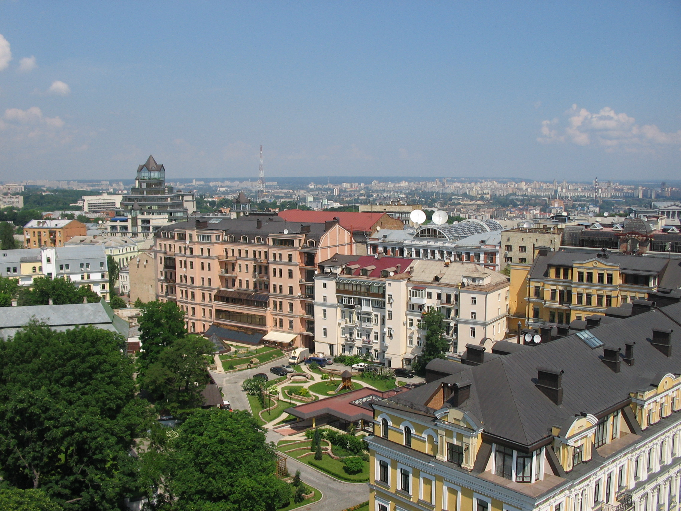 View of Kiev seen from the belltower of the Saint Sophia Monastery in Kiev, the capital of Ukraine.